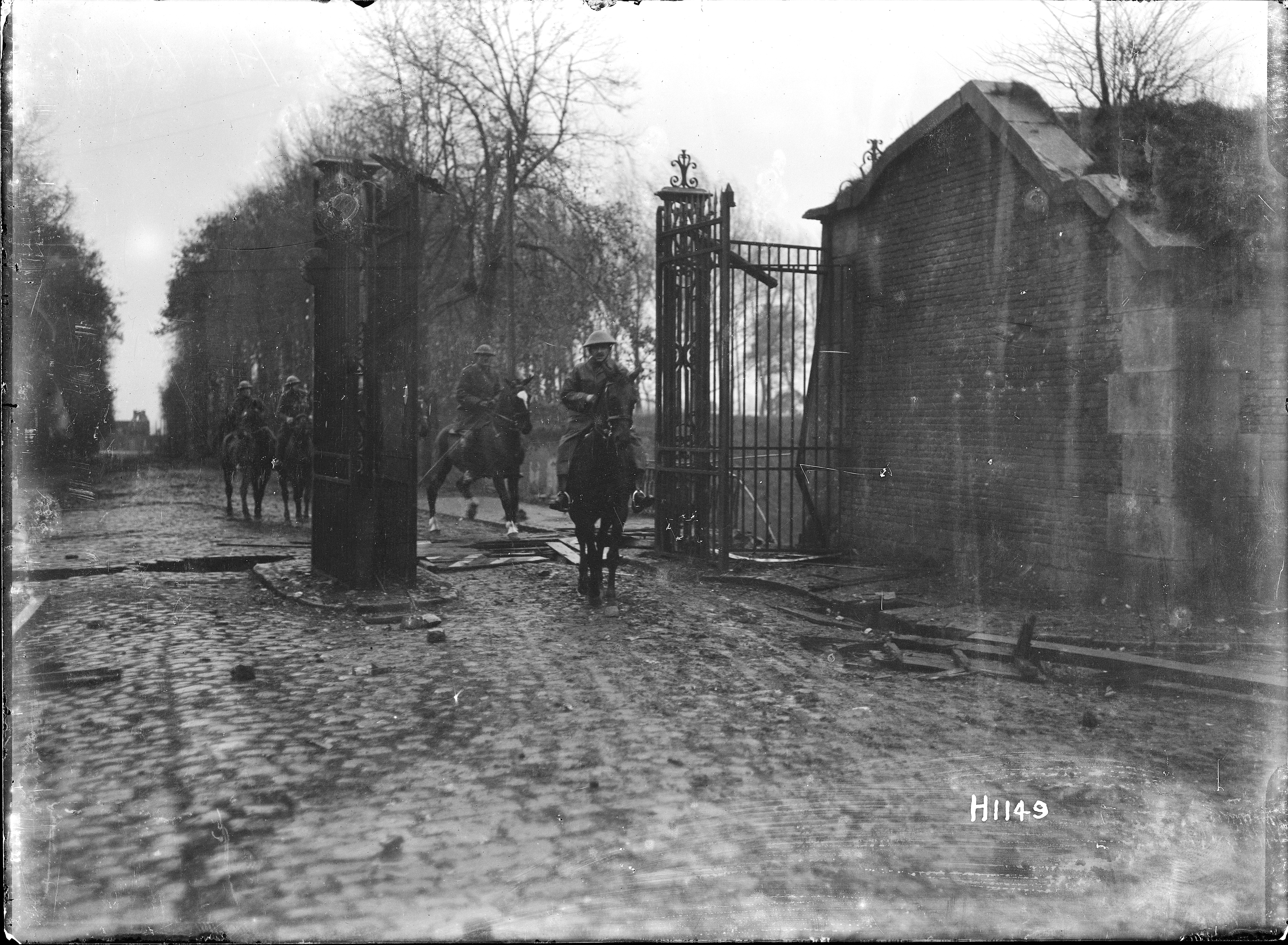 New Zealand Divisional Commander, Major General Russell, entering Le Quesnoy, France, on horseback, in the early morning after its capture during World War I. Shows him riding through The Flamengrie (Flemish) Gate of the city after coming from the railway station. Photograph taken on the 5th of November 1918 by Henry Armytage Sanders. Inscriptions: Inscribed - Marginal notes on negative -bottom left: H1149. Quantity: 1 b&w original negative(s). Physical Description: Dry plate glass negative 4 x 5 inches New Zealand Divisional Commander entering Le Quesnoy, France, after its capture during World War I. Royal New Zealand Returned and Services' Association :New Zealand official negatives, World War 1914-1918. Ref: 1/2-013702-G. Alexander Turnbull Library, Wellington, New Zealand.